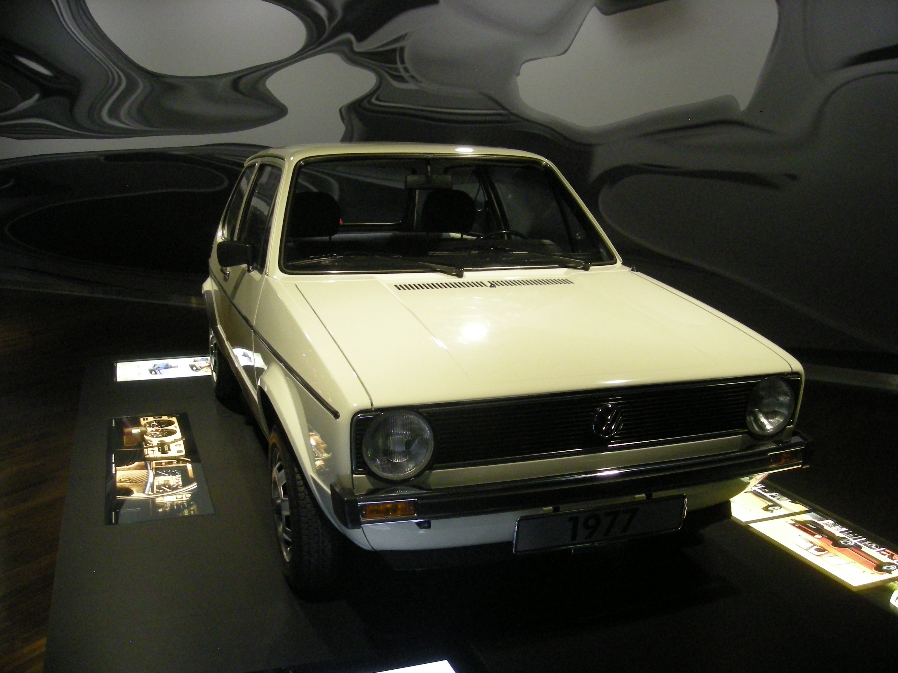 A 1977 Volkswagen Golf inside the ZeitHaus at Autostadt in Wolfsburg, Niedersachsen (Germany).